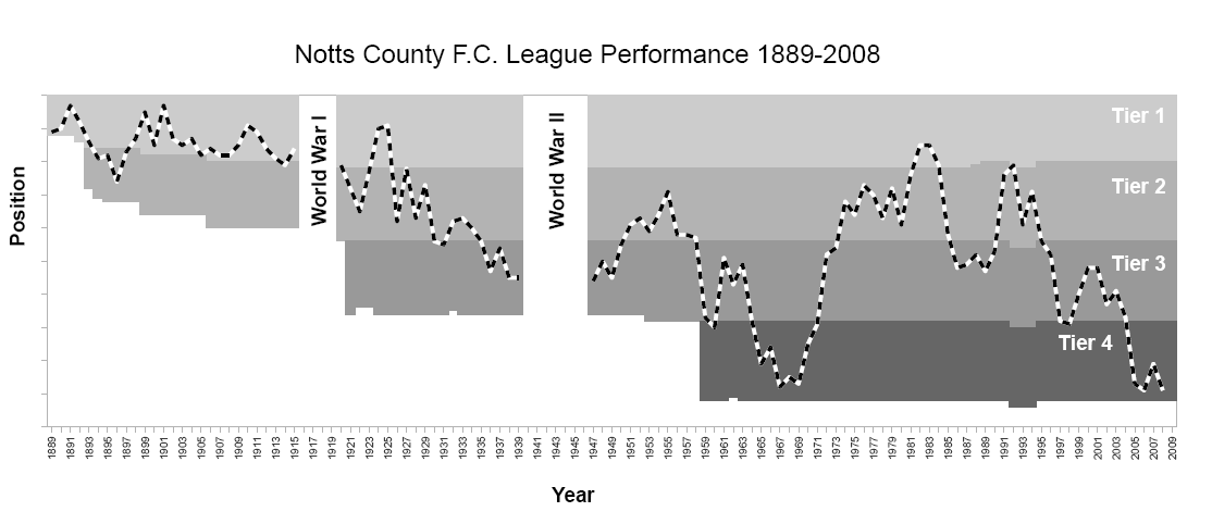 Graph showing Notts County F.C.'s performance from the first season of the English Football League in 1888-1889 to 2008 when they came 21st in League Two.